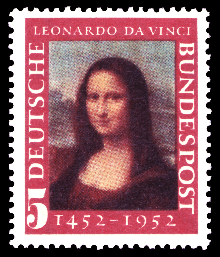 500th birthday of Leonardo da Vinci (1452-1519), Leonardos painting Mona Lisa Graphics by Hermann Zapf Ausgabepreis: 5 Pfennig First Day of Issue / Erstausgabetag: 15. April 1952 Michel-Katalog-Nr: 148